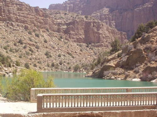 Walli Tangi